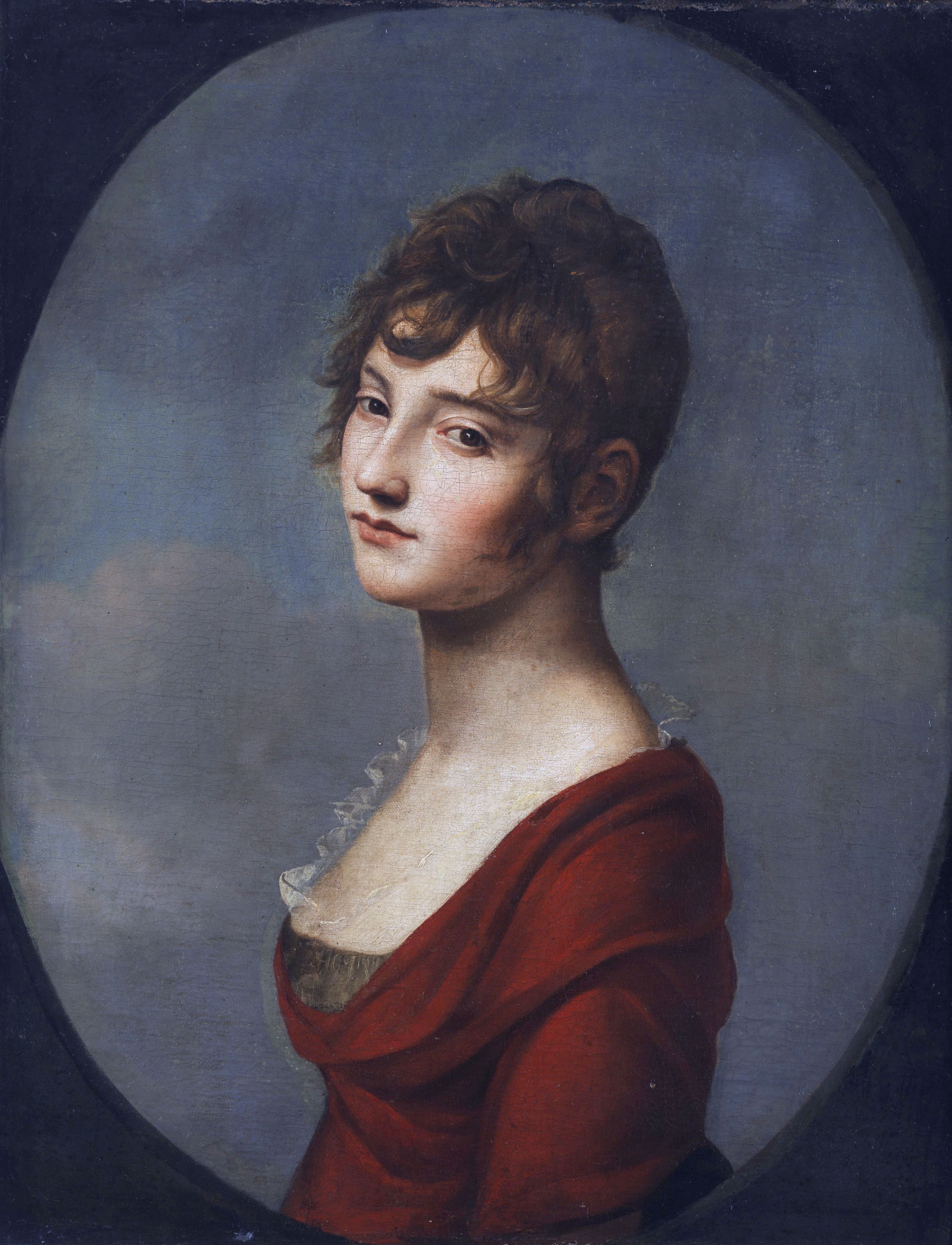 Amalie Wolff-Malcolmi (1780 - 1851) oil on canvas 60 x 49 cm